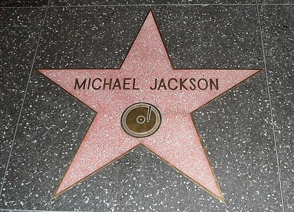 The star of Michael Jackson on the Walk of Fame in Hollywood